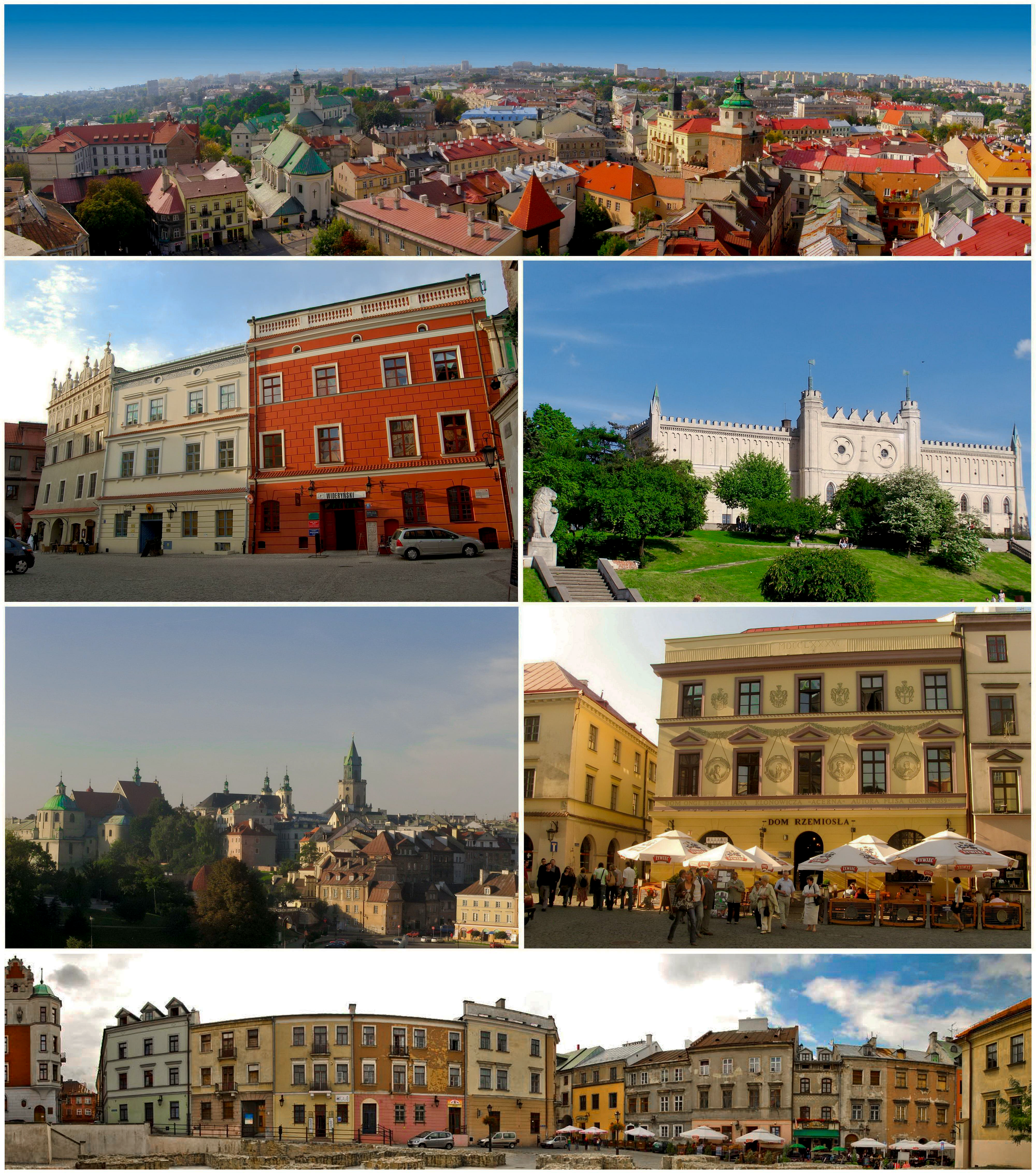 Collage of views of Lublin.